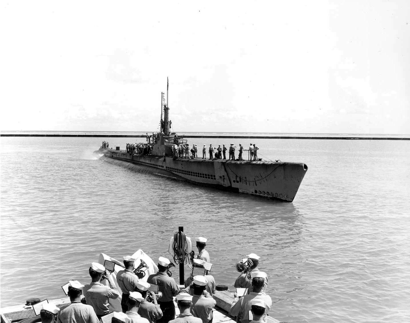 USS_Cabrilla; A band welcomes the Cabrilla (SS-288) back from her patrol. U.S. Navy photo, courtesy of web site.